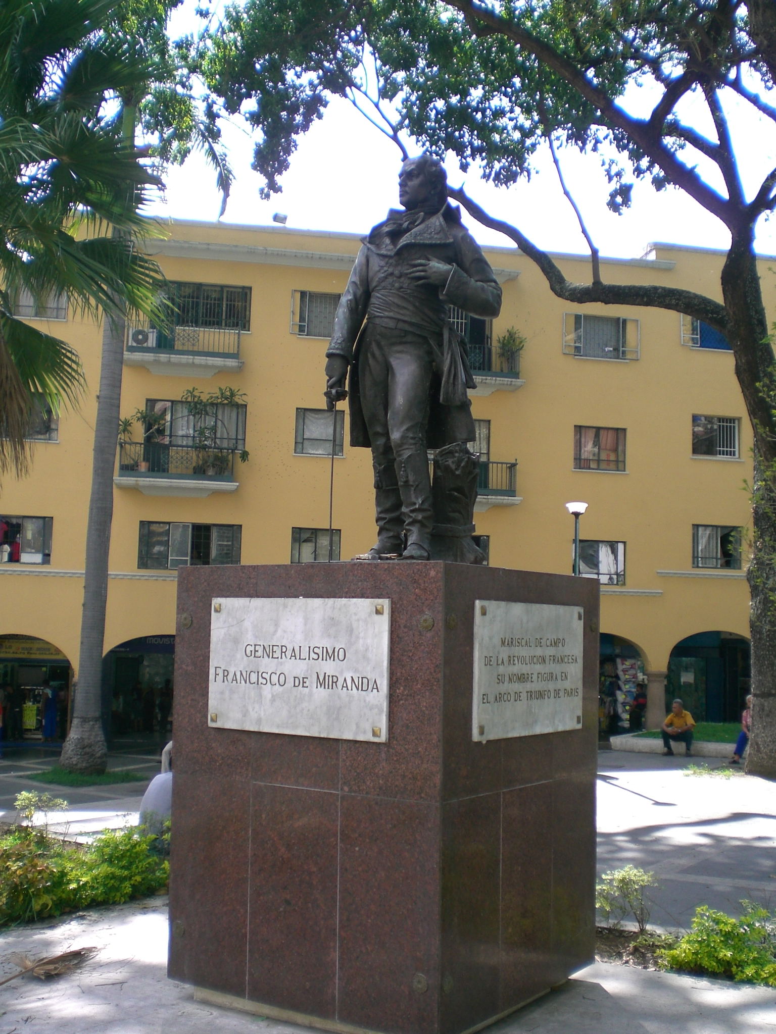 Statue of Francisco de Miranda in Plaza Miranda, Caracas